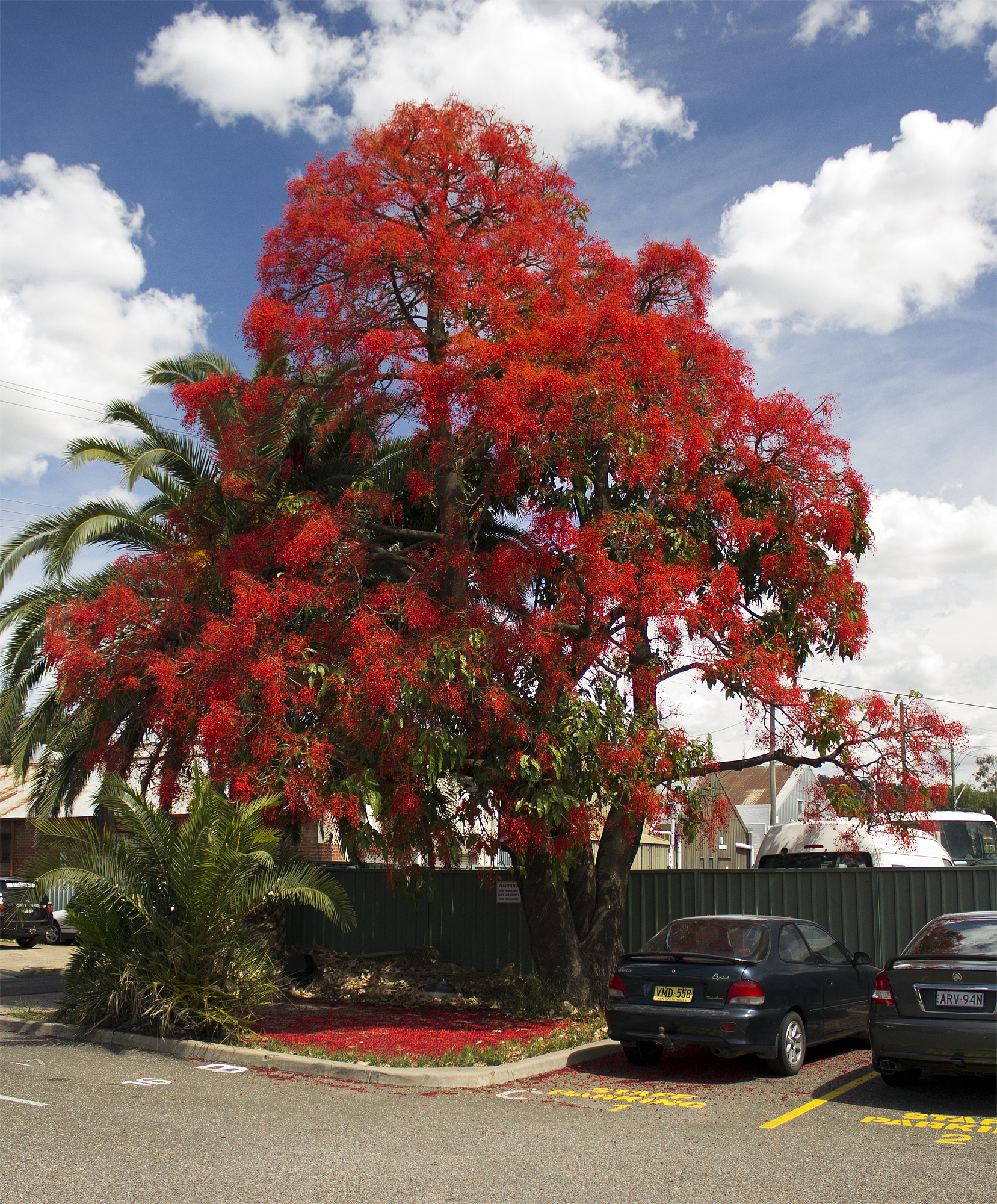 Illawarra Flame Tree (Brachychiton acerifolius) in full flower. Photographed in Wagga Wagga, New South Wales.